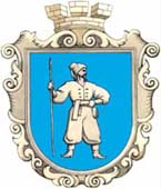 Coat of arms of Uman Ukraine